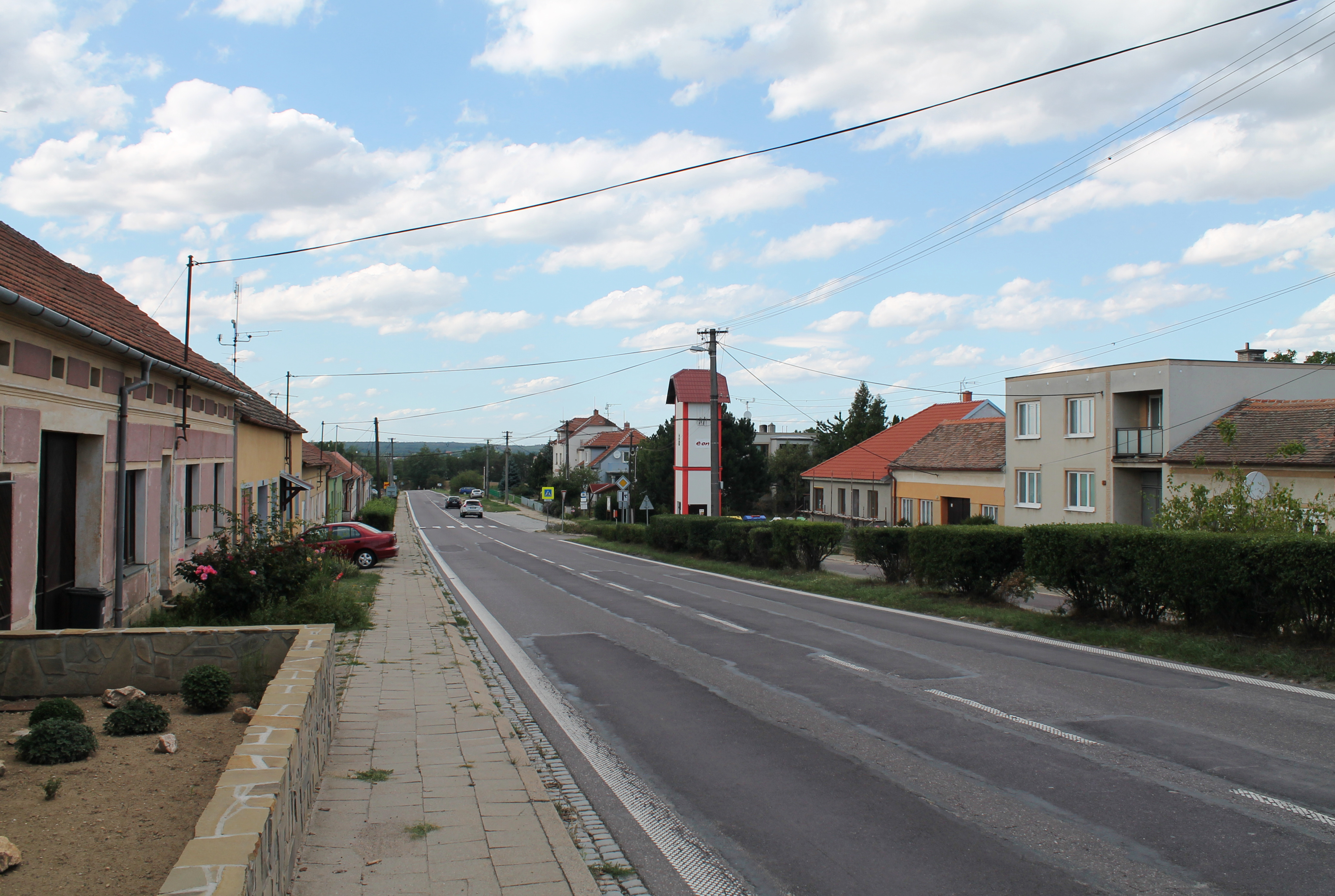 Kasárna, Znojmo, Znojmo District, Czech Republic